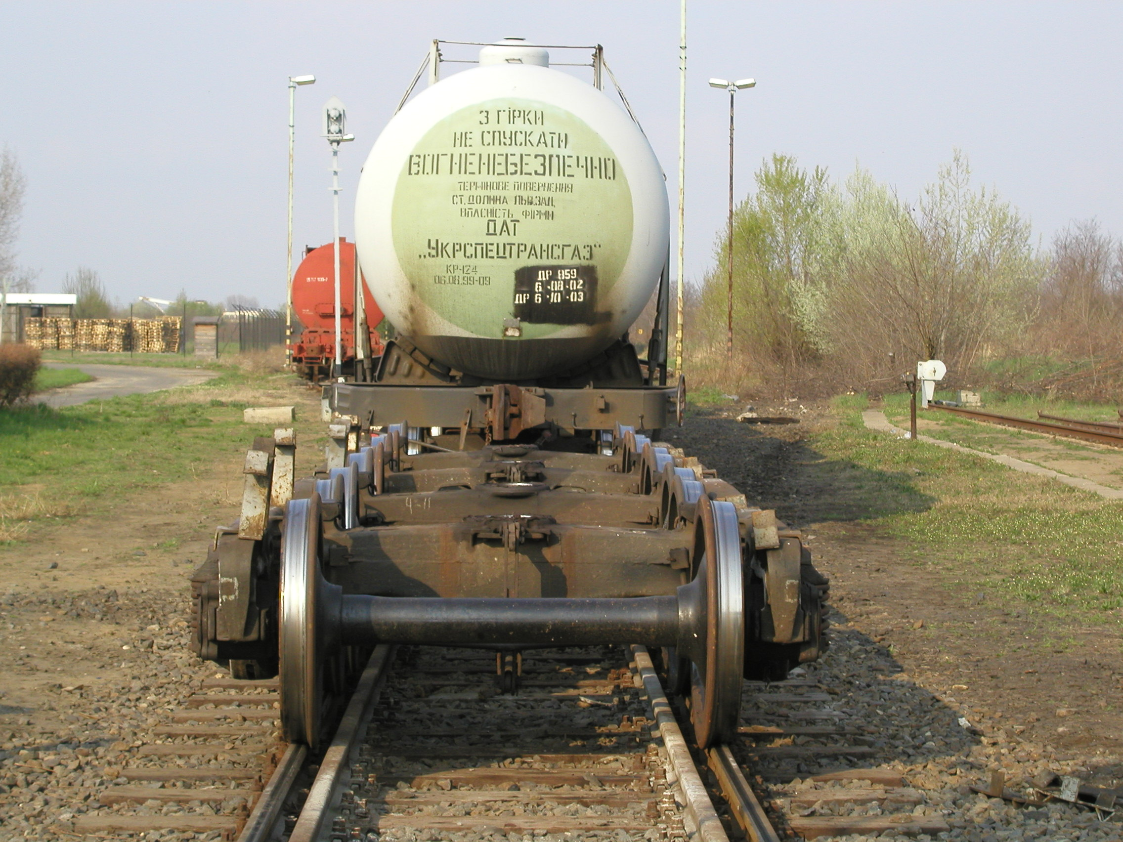 Bogie-changing at the Záhony Railway Freight Terminal